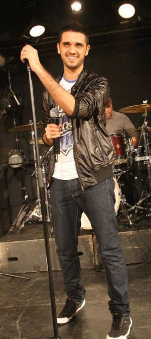 i own this photo